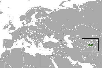 Buchara Shrew (Sorex buchariensis) range